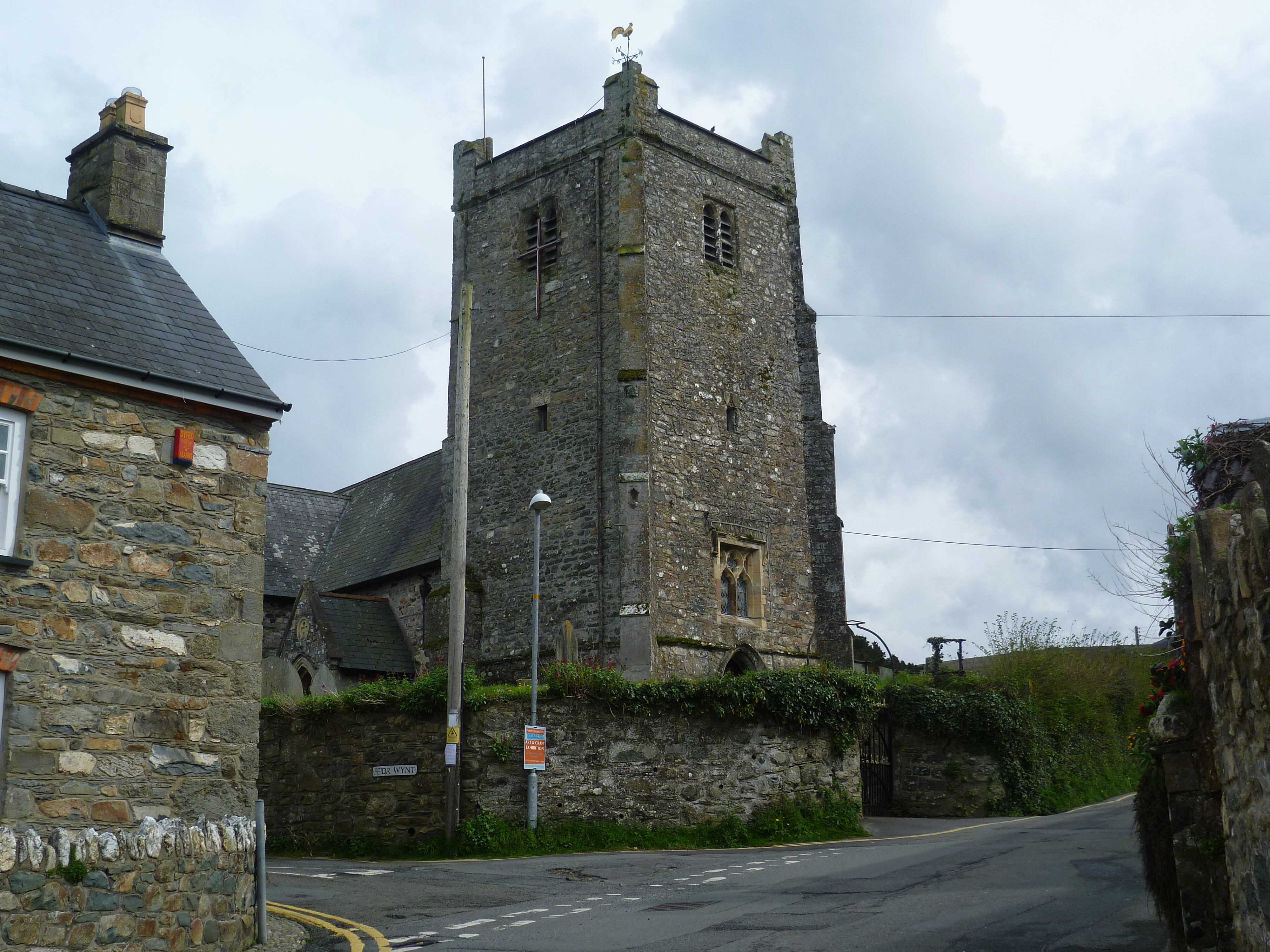 The tower of St Mary's Church, Newport, Pembrokeshire